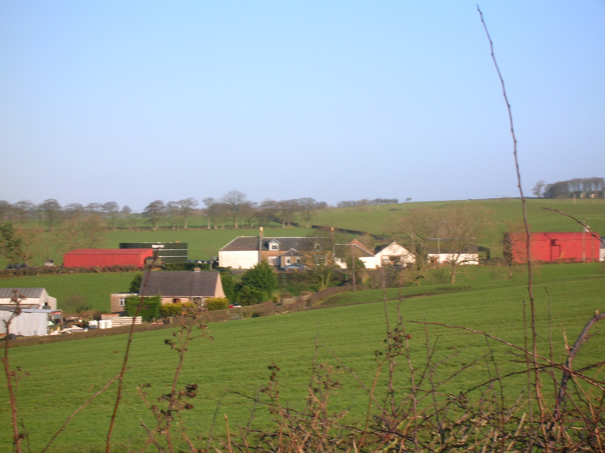 A view of Gillmill farm, East Ayrshire, 2007.